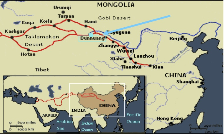 Map of mission Pelliot 1908